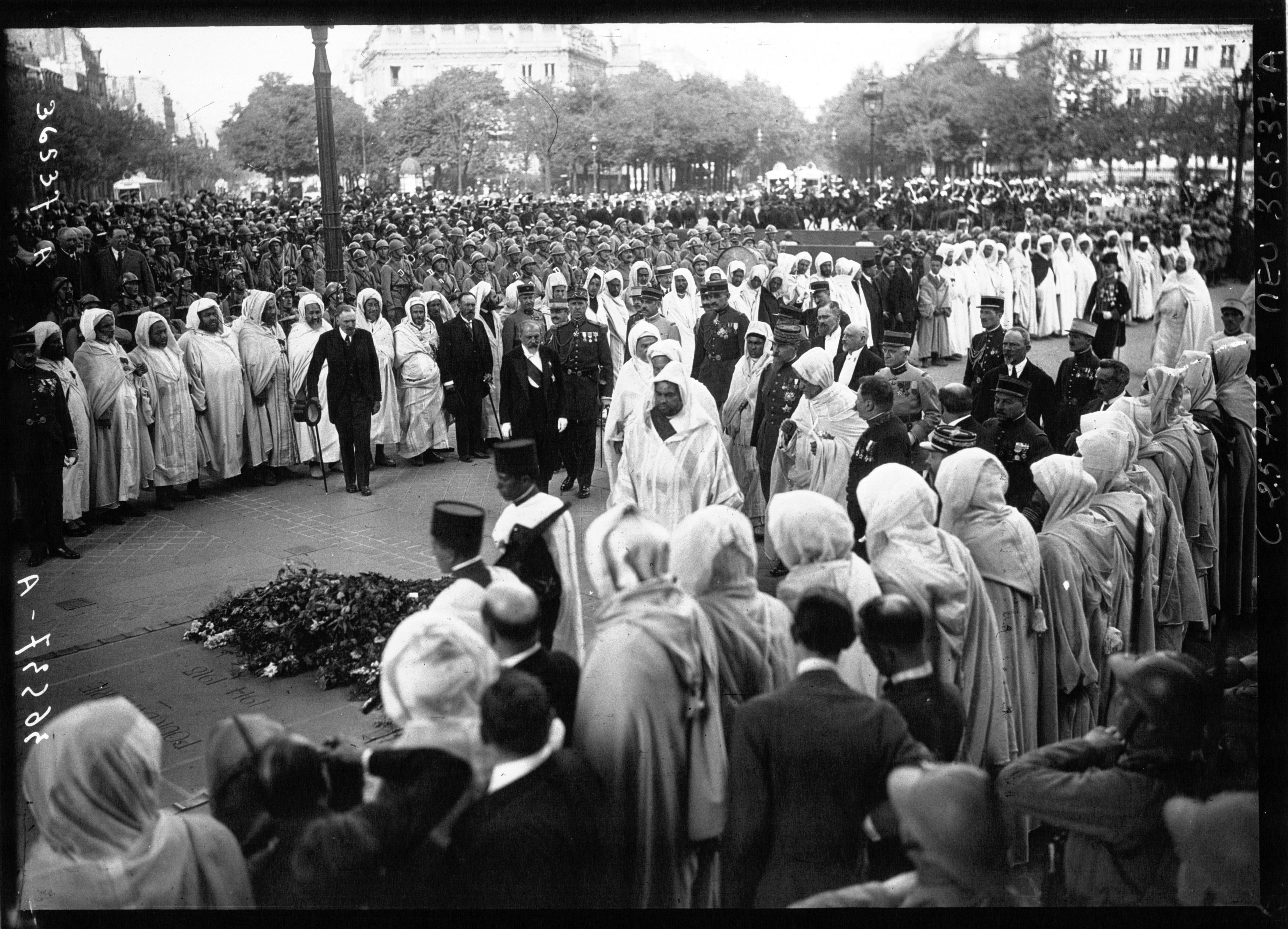 Yusef of Morocco at the Tomb of the Unknown Soldier in Paris in 1926.